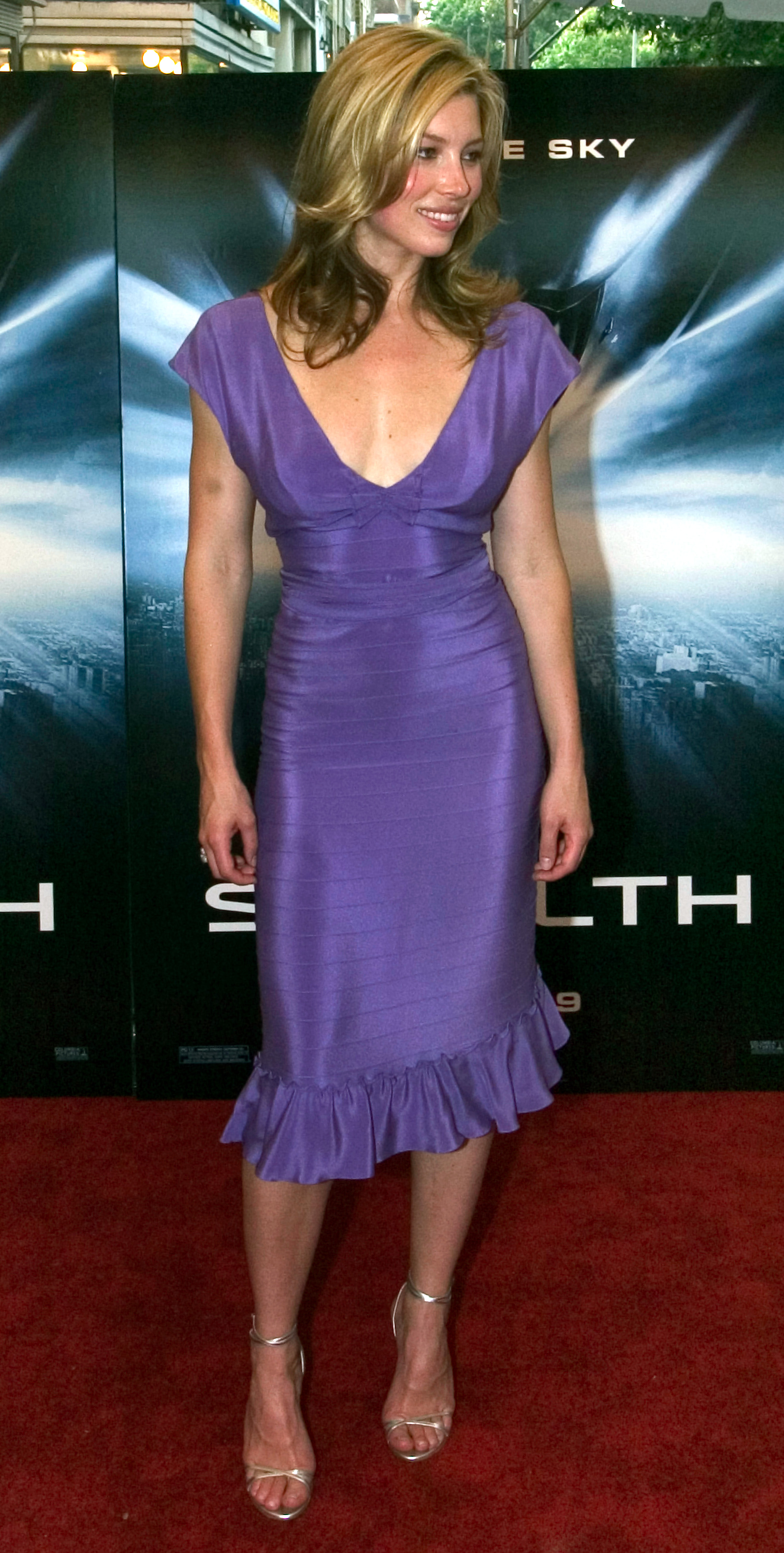 050719-N-0295M-002 Washington, D.C. – Actress Jessica Biel poses for photographers on the red carpet prior to entering the Loews Uptown Theater for the Washington, D.C. premier of the major motion picture, “Stealth”. Starring Jamie Foxx, Jessica Biel and Josh Lucas, “Stealth” is an action thriller about a squadron of elite Naval Aviators who embark on a mission to neutralize an out-of-control prototype drone fighter plane equipped with artificial intelligence and the ability to cause a nuclear war. The Navy offered over 200 general admission seating for Sailors and Marines to attend the Washington, D.C. premier.